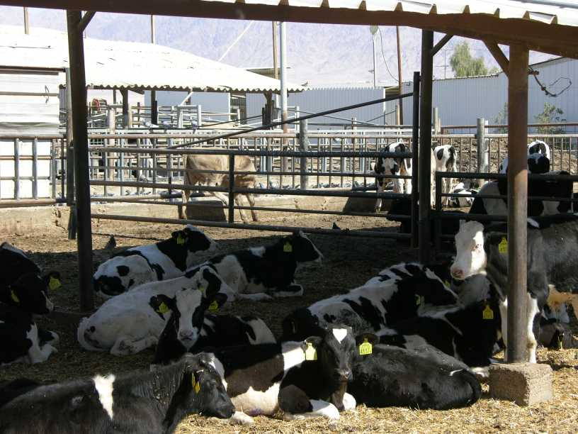 Cattle at Eilot, Israel